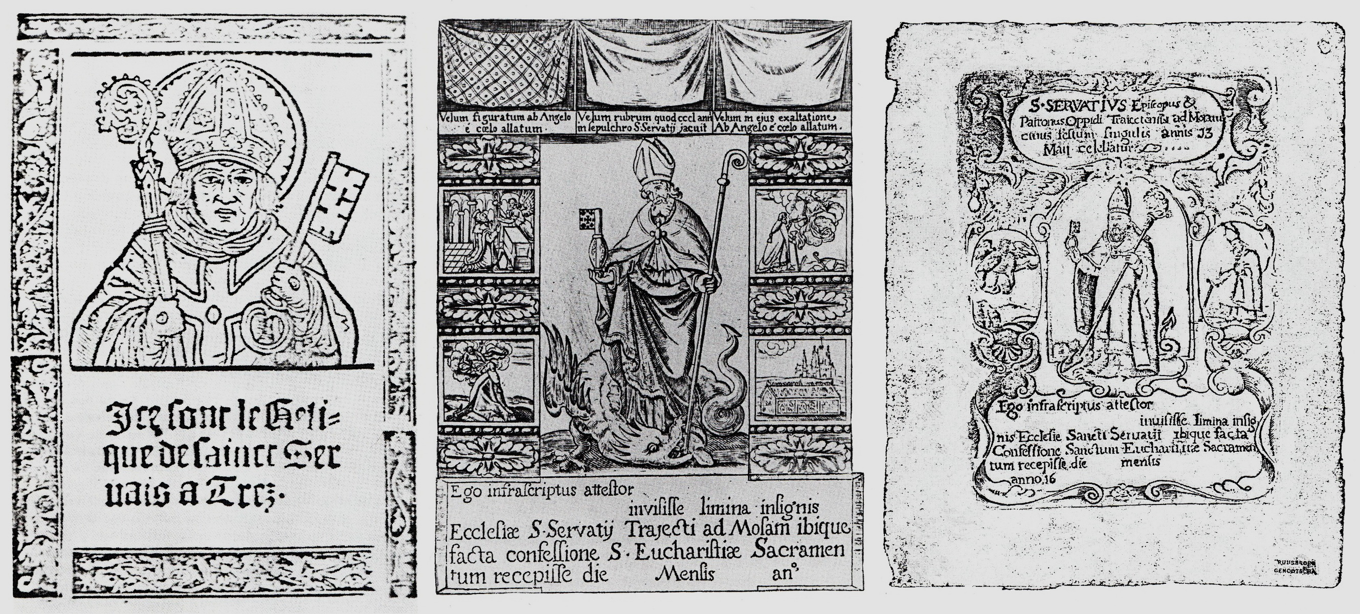 Pilgrimage booklets and forms of the Church of Saint Servatius in Maastricht, Netherlands (16th/17th c.).